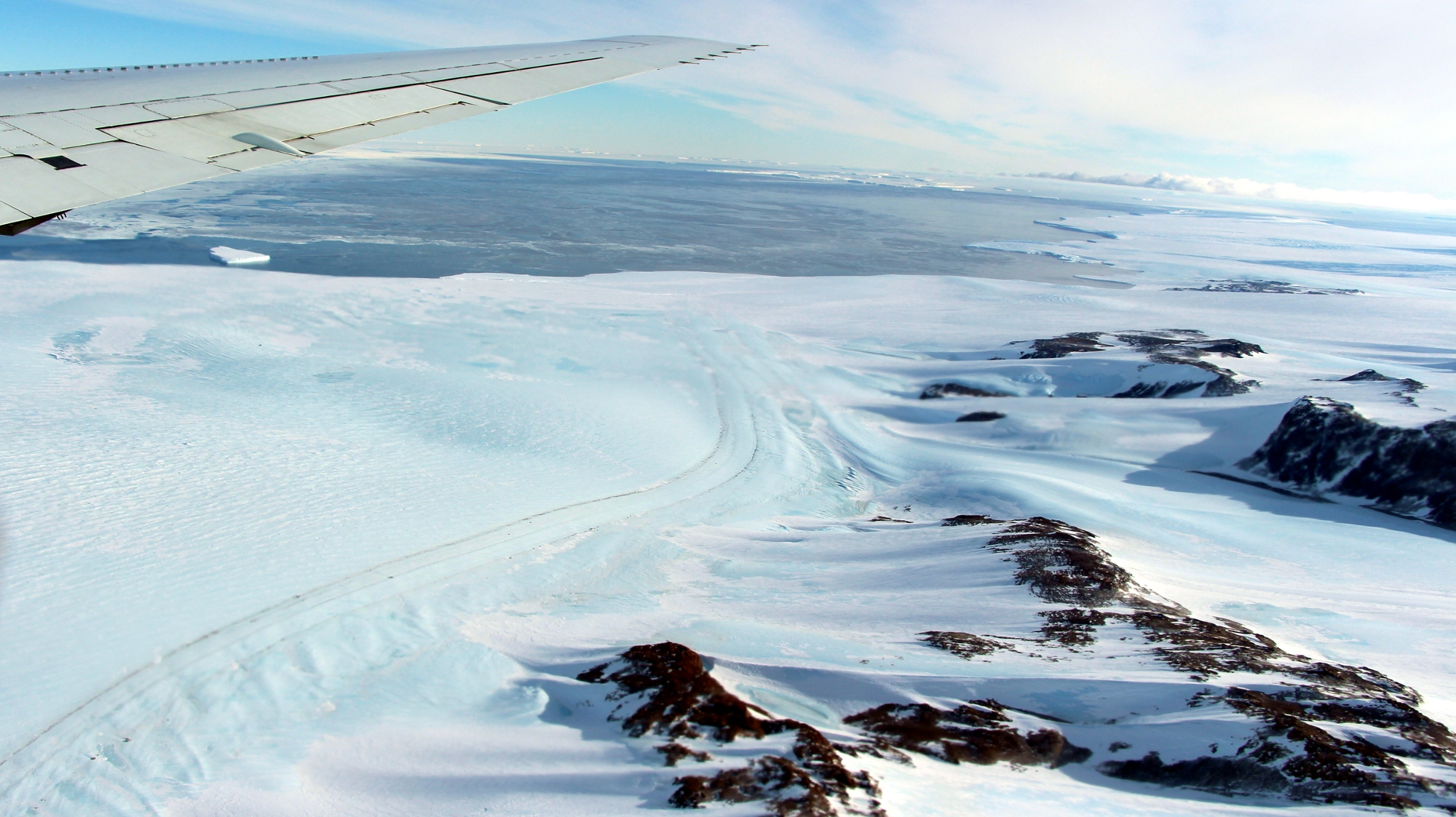 Hull Glacier, as seen during Operation IceBridge's "Hull-Land 1" mission on Oct. 28, 2016. (NASA/John Sonntag).